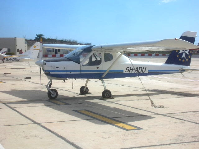 C Mercieca 18:44, 5 November 2006 (UTC)A tecnam P 92J of Falcon Alliance in Malta. 9H-ADU was one of the oldest P 92J airframes in service, production number 3. 9H-ADU crashed on July 11th 2011 during flight training over Gozo, due to pilot error.